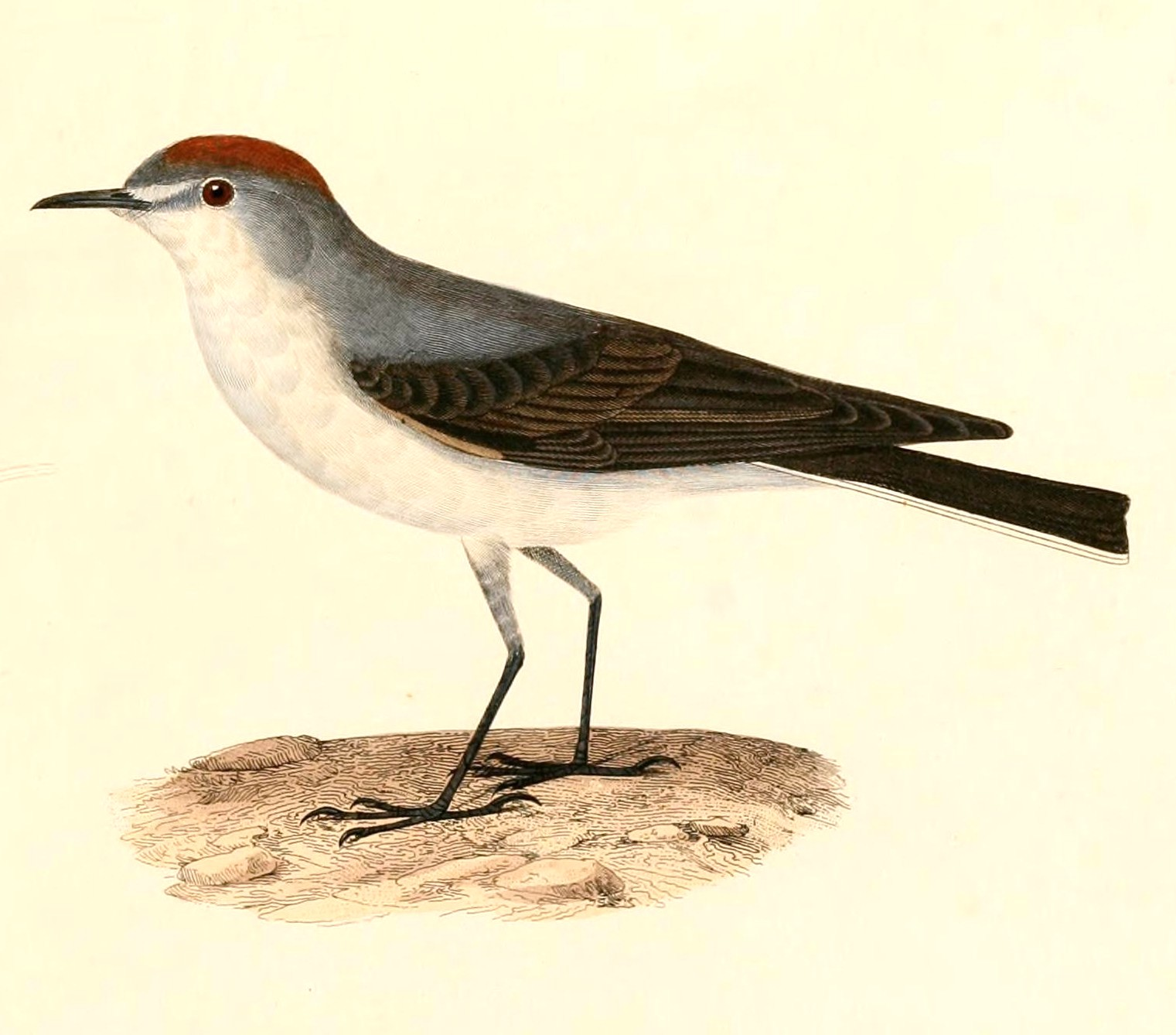 « Muscisaxicola rufivertex » = Muscisaxicola rufivertex (Rufous-naped Ground Tyrant)